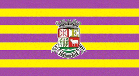 Flags of the city of Eugenópolis, Minas Gerais, Brazil.